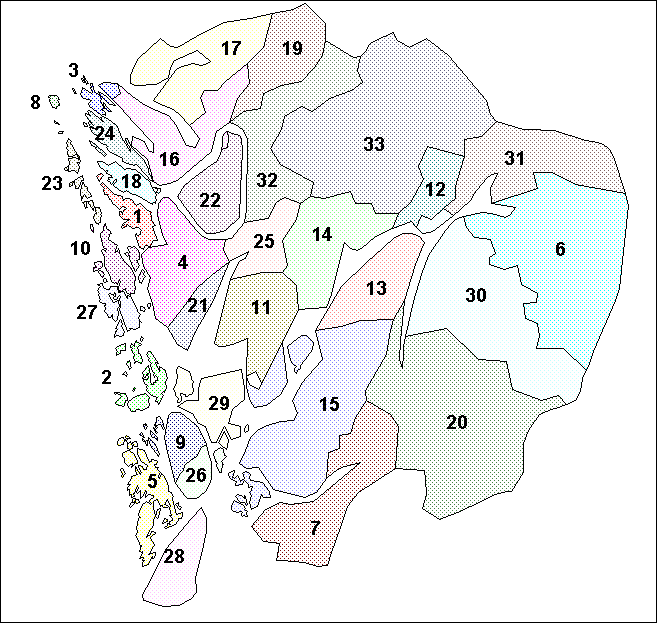 Map of the municipalities of Hordaland County in Norway. Created by Rarelibra for public domain use. Created using MapInfo Professional v7.5 and various mapping resources.